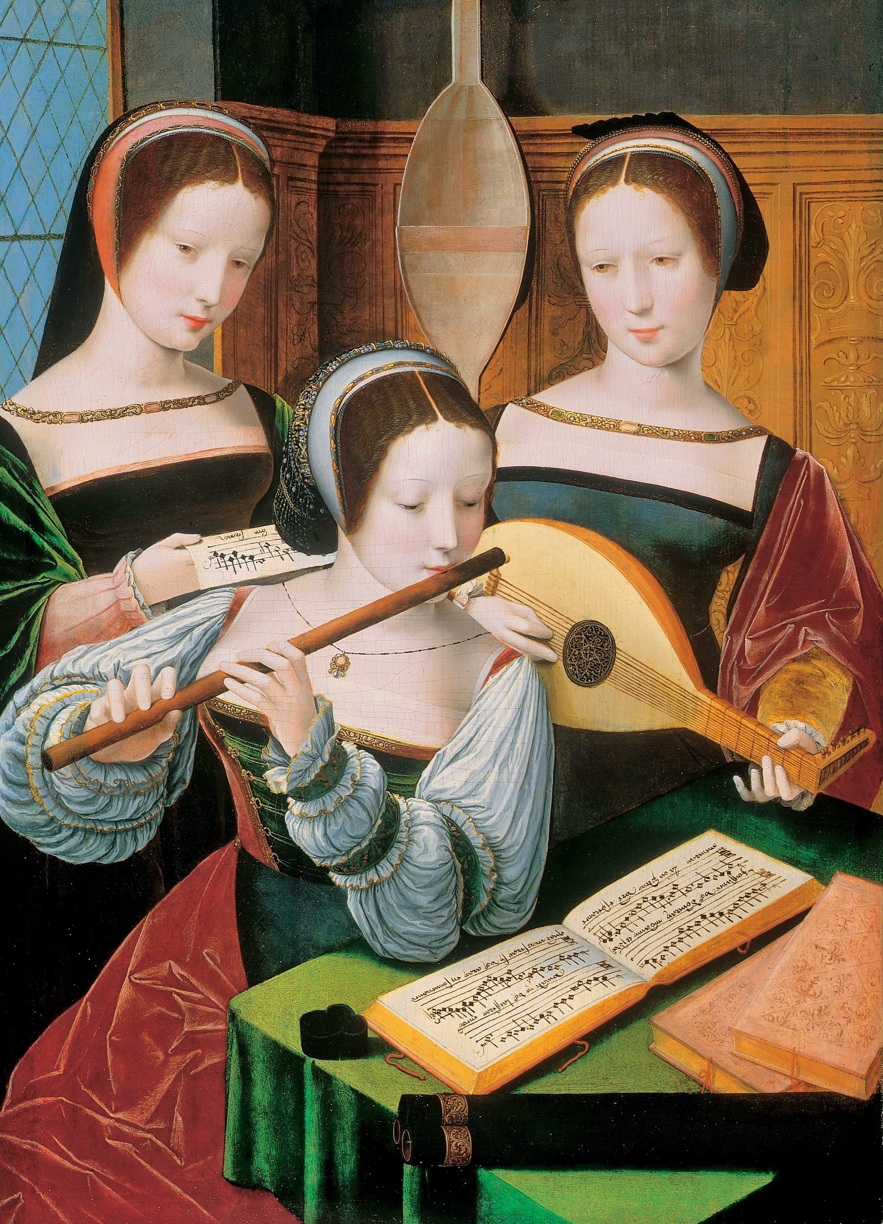 Three female Musicians playing the poem 'Jouissance vous donneray' by Clément Marot, music by Claudin de Sermisy